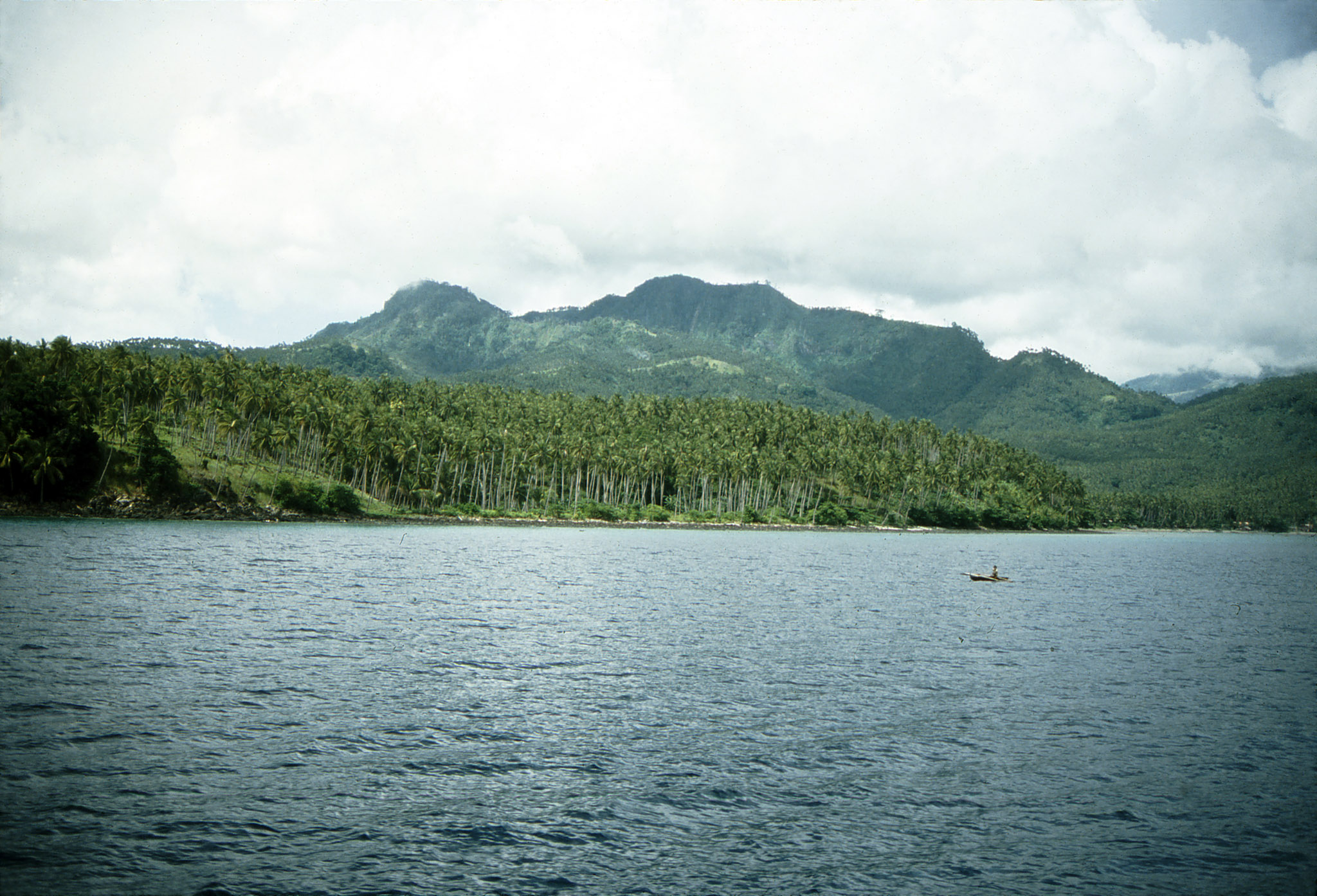 Mount Butay is one of the extinct volcanoes of Camiguin Island in Southern Philippines.